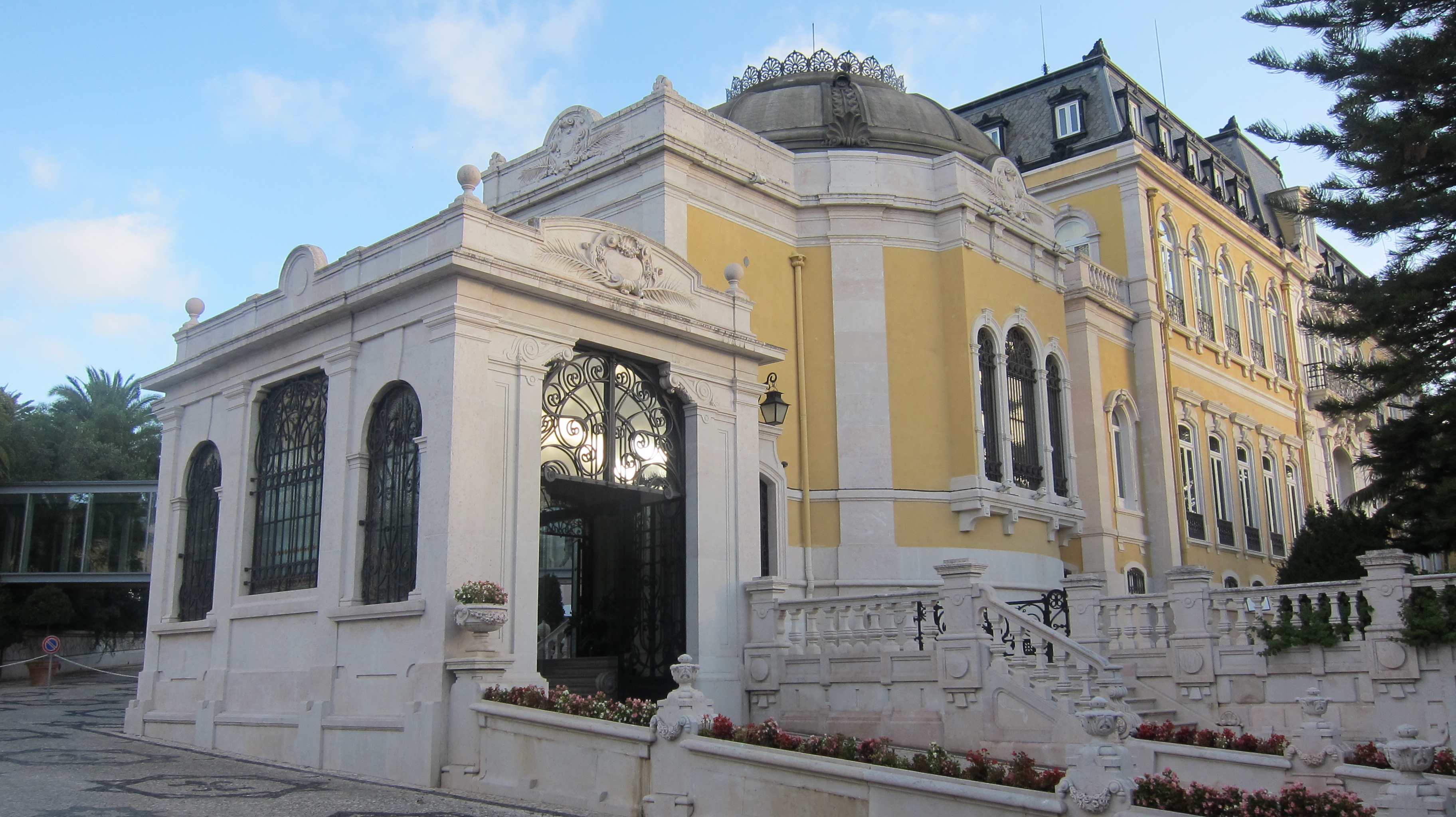 Pestana Palace Hotel City: Lisbon